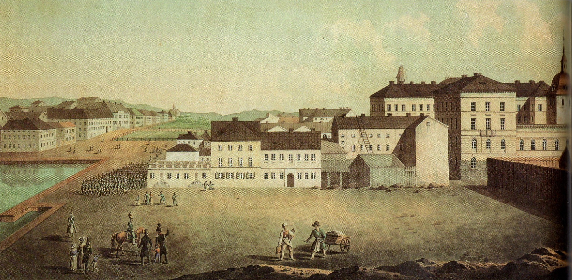 Watercolor painting of the Market Square in Helsinki from 1827.